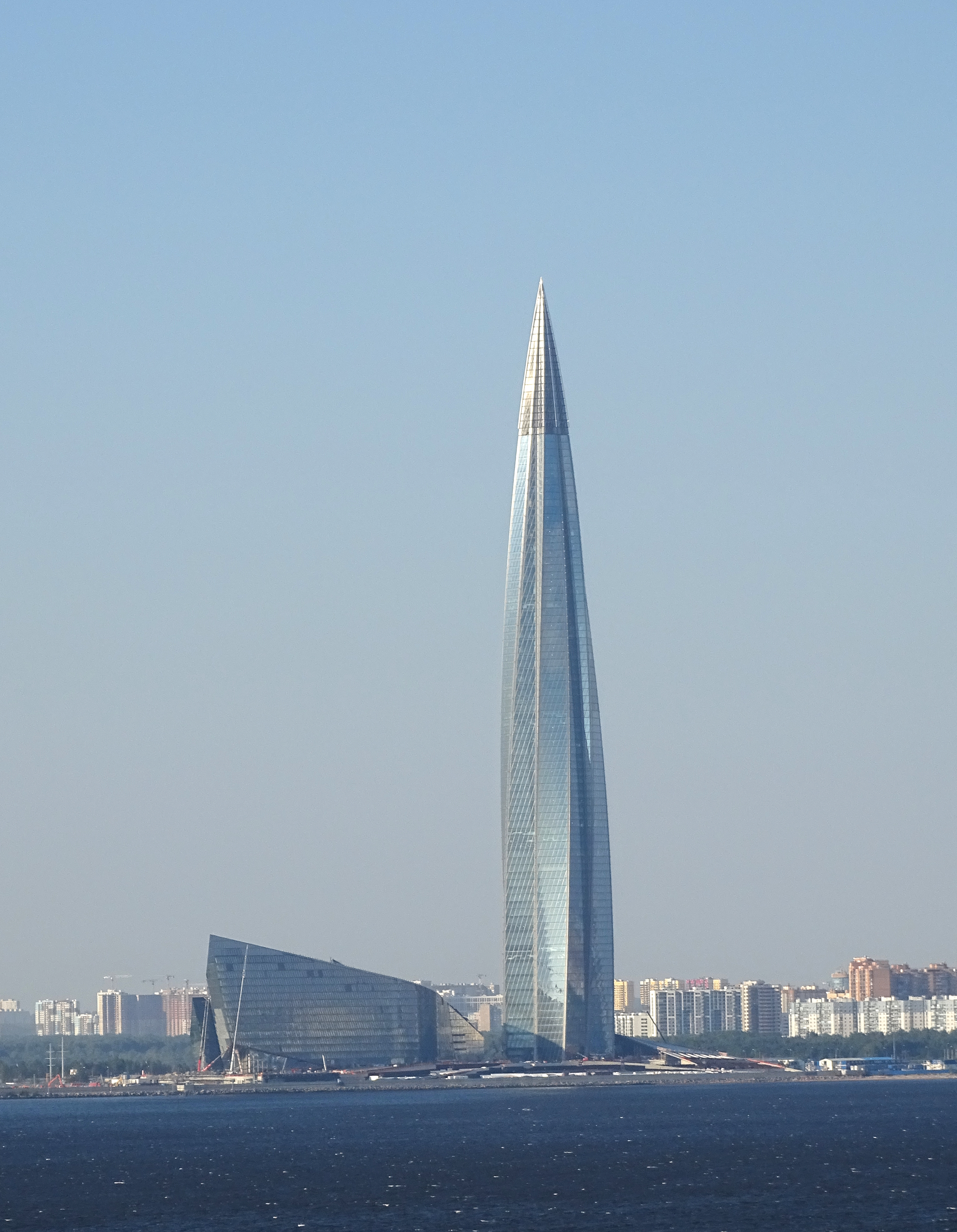 The Lakhta Center, an 87-story skyscraper in Saint Petersburg, Russia.